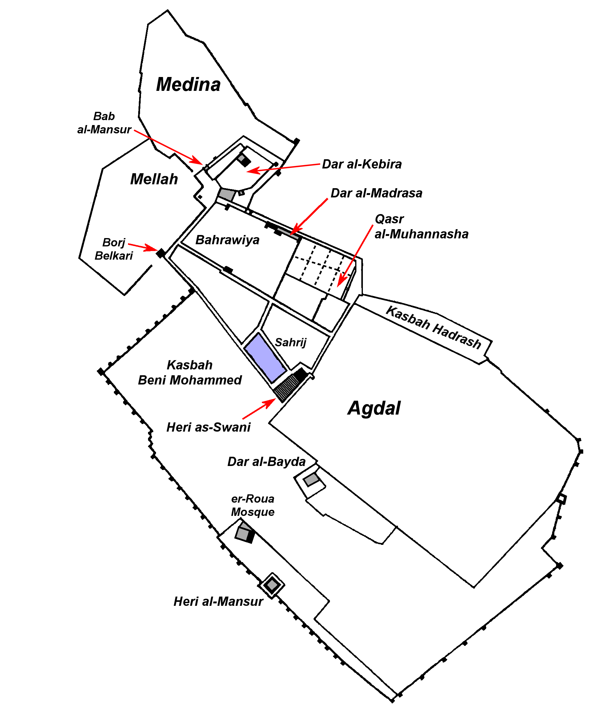 Map of the Kasbah or Imperial City of Moulay Ismail, with notable elements identified. Map is based on the maps drawn by Marianne Barrucand in her 1980 book "L'architecture de la Qasba de Moulay Ismaïl à Meknès" and subsequently re-published or reused in other works.